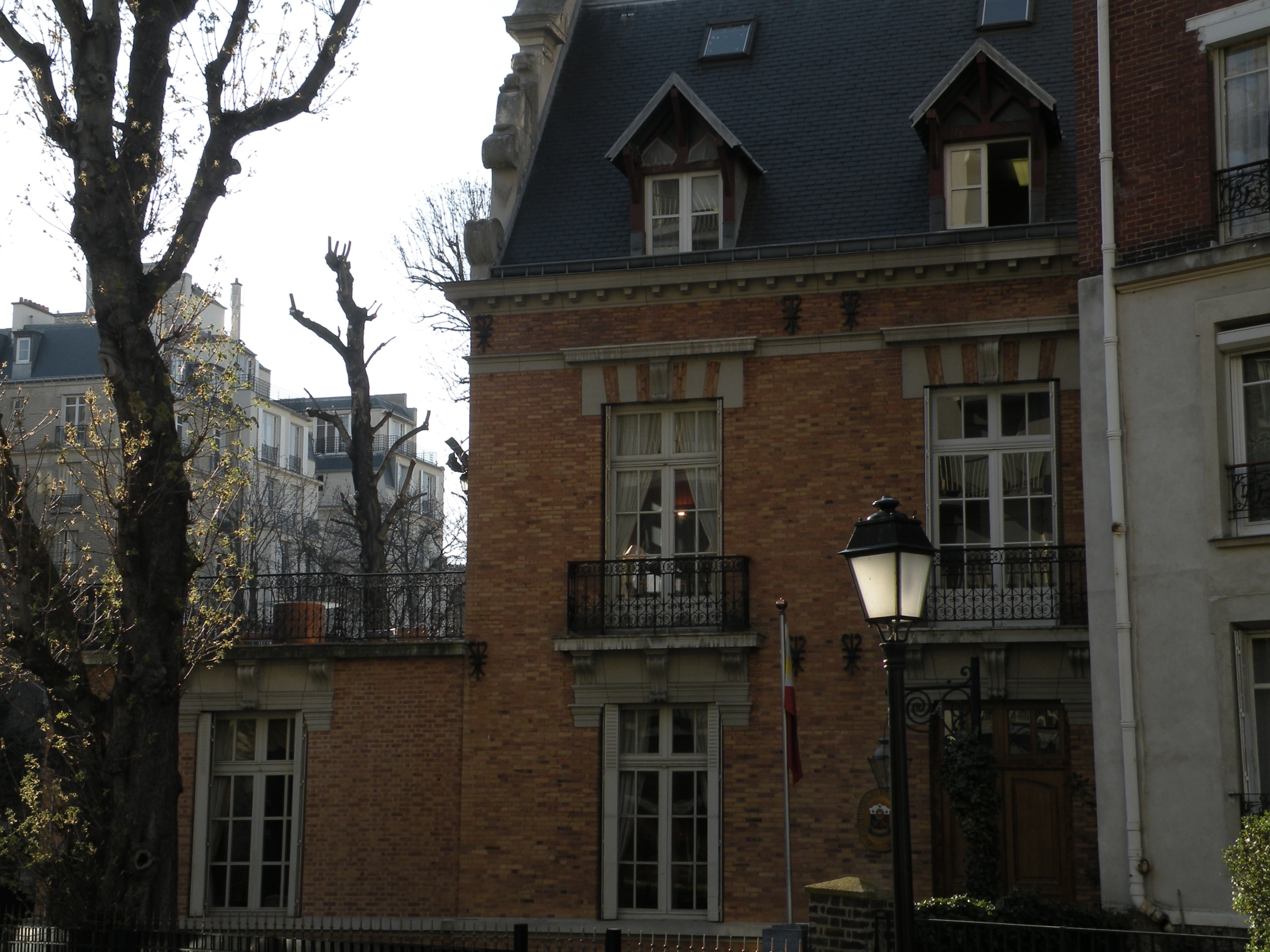 Philippine embassy in France, Paris